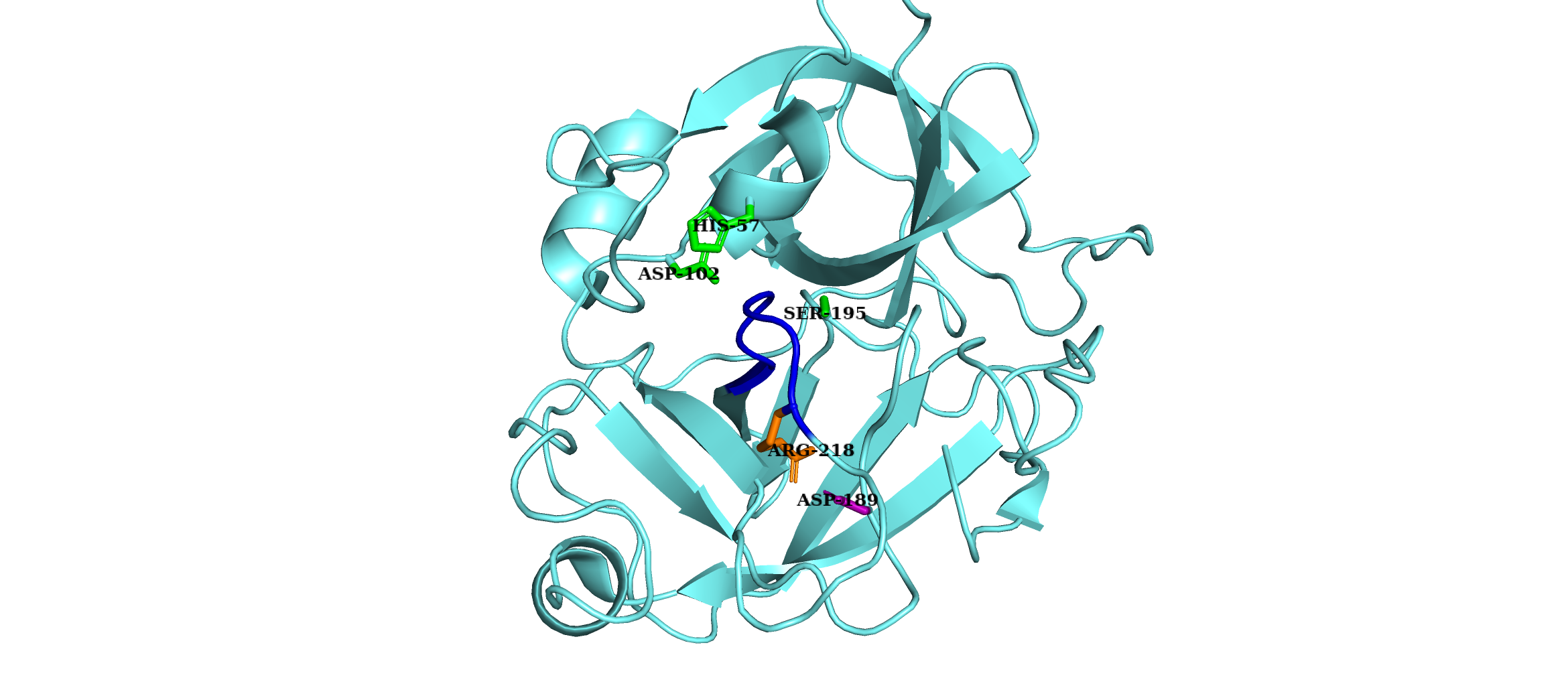 The non-canonical configuration of Factor D is inhibited by the self-inhibitory loop (blue). The Asp-Arg salt bridge (purple and orange side chains, respectively) stabilizes the self-inhibitory loop. The catalytic triad is shown in green.